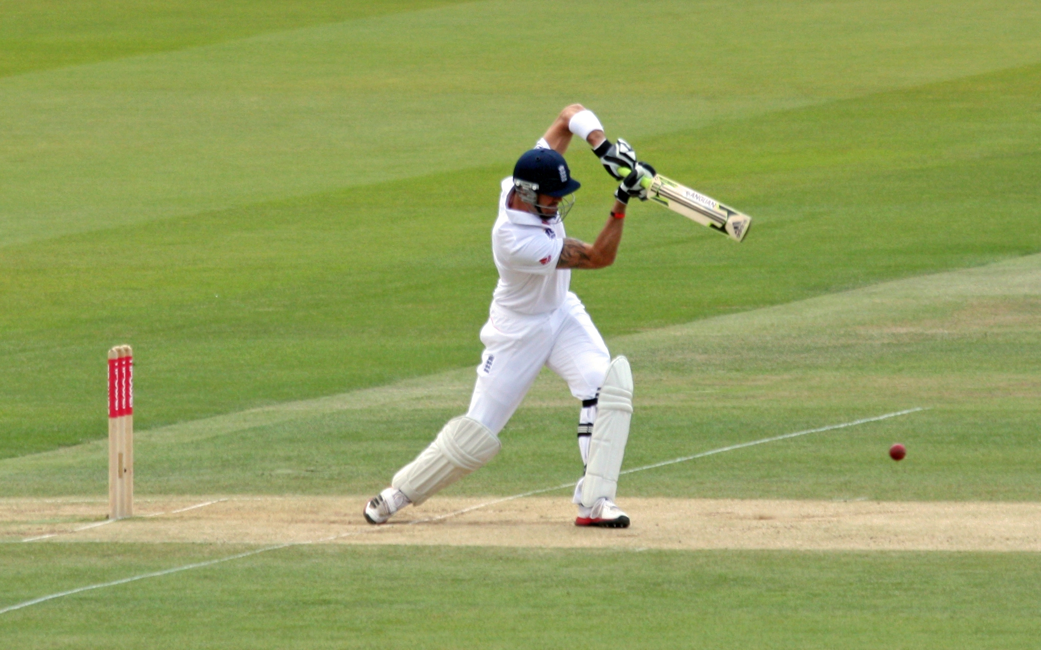 Kevin Pietersen driving through mid-on during his innings of 72 against Sri Lanka at Lord's. Scorecard.